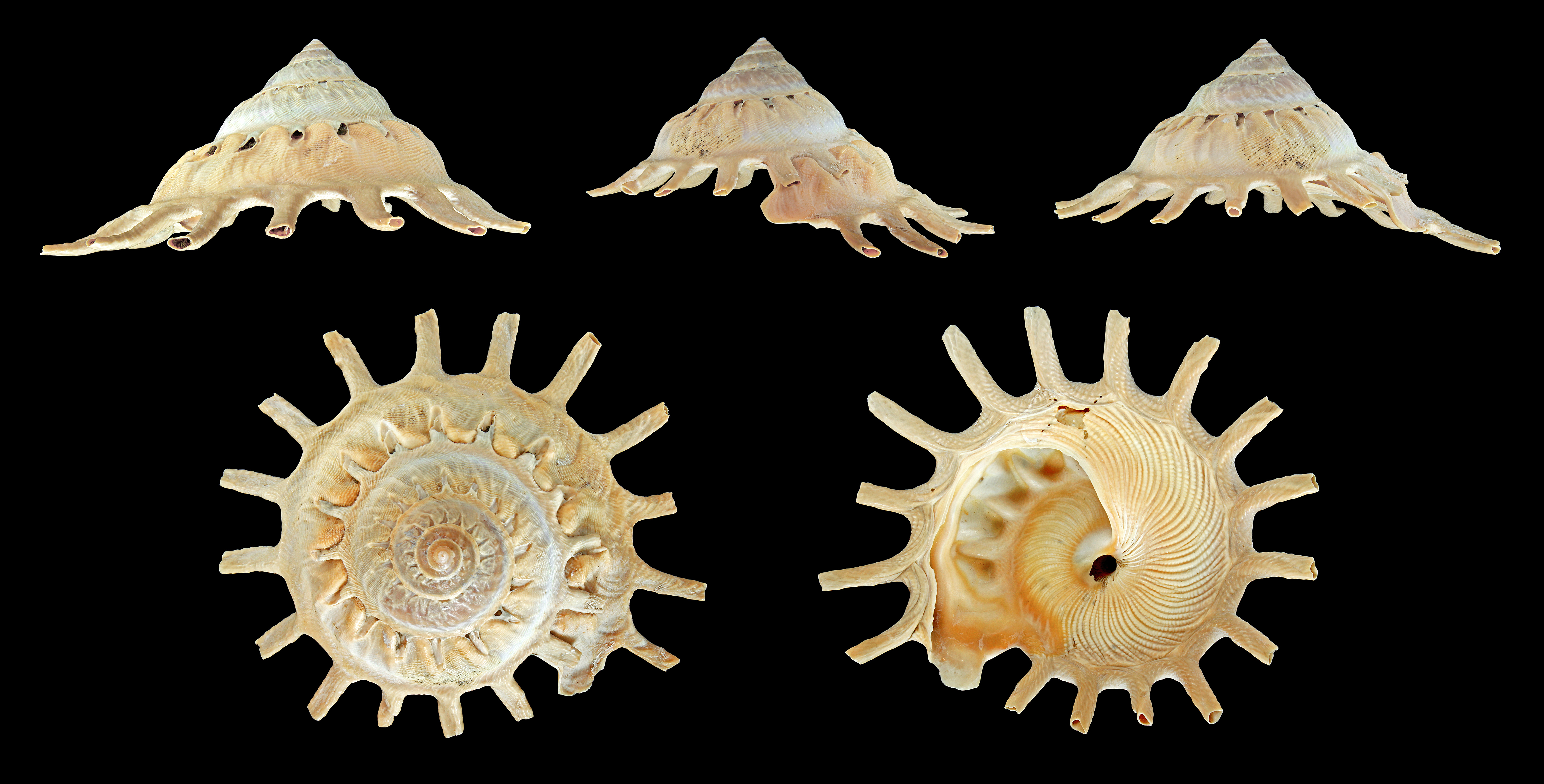 Sunburst Carrier Shell, Diameter 11 cm; Originating from Vietnam; Shell of own collection, therefore not geocoded.